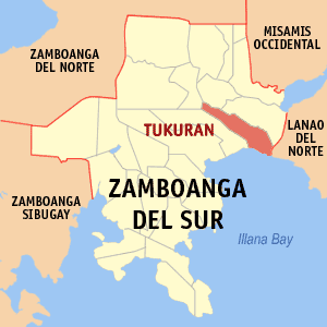 Map of Zamboanga del Sur showing the location of Tukuran